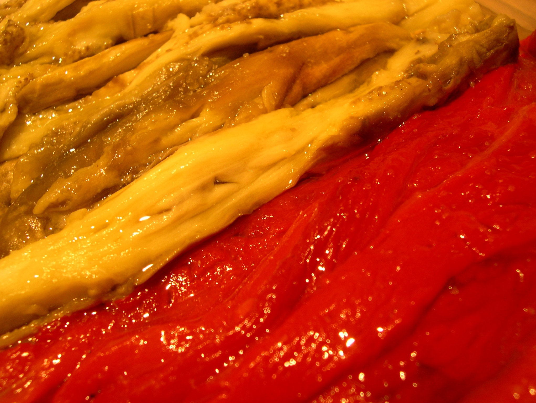 Escalivada - Typical food in Catalunya, like the first plate, or adjustment of meats or fish. Also it is delicious on a slice of the bread with garlic, or the bread greased with sauce tomato.